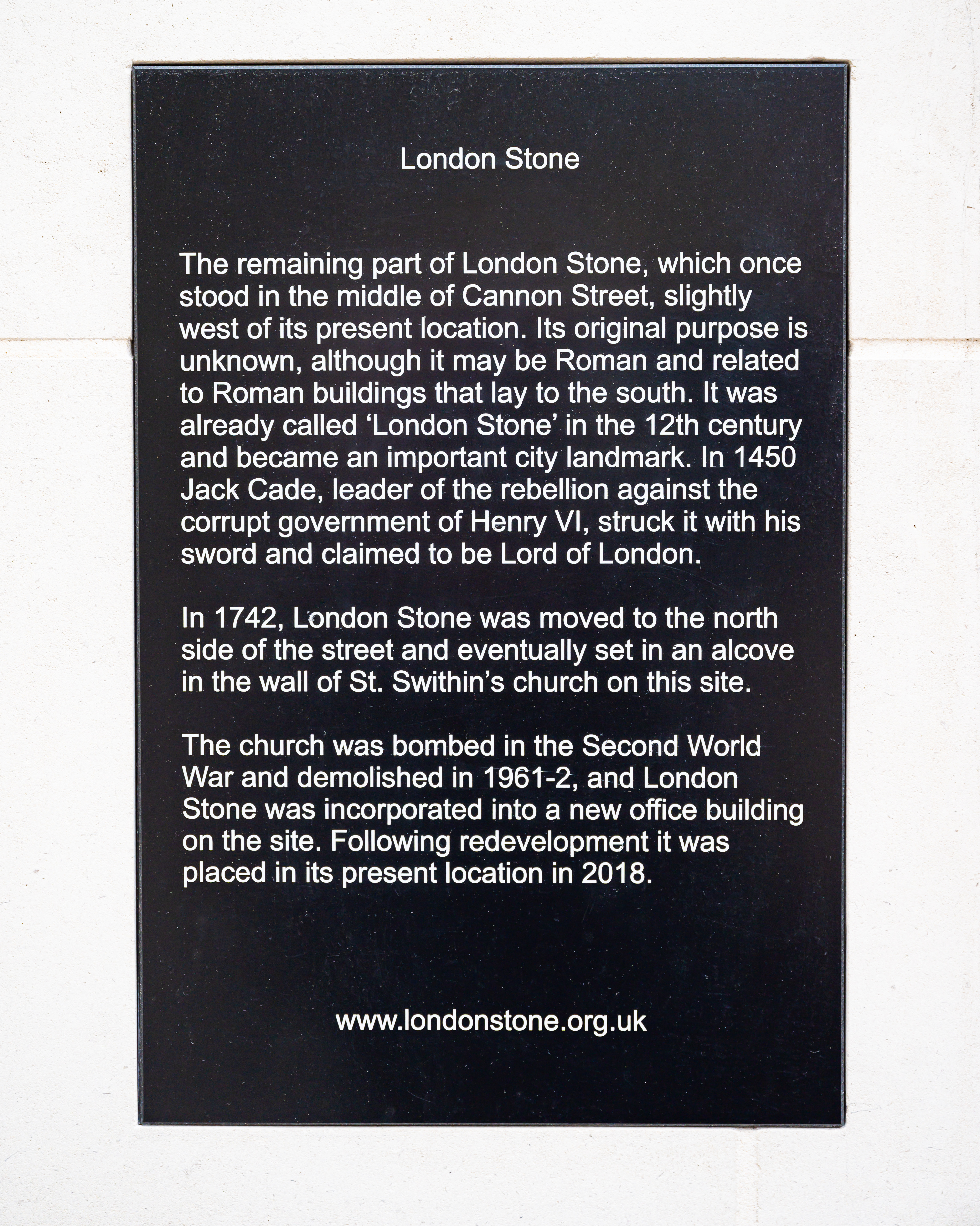 Text of the London Stone plaque